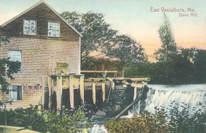 Davis Mill, East Vassalboro, Maine. East Vassalboro is located at the outlet of China Lake.